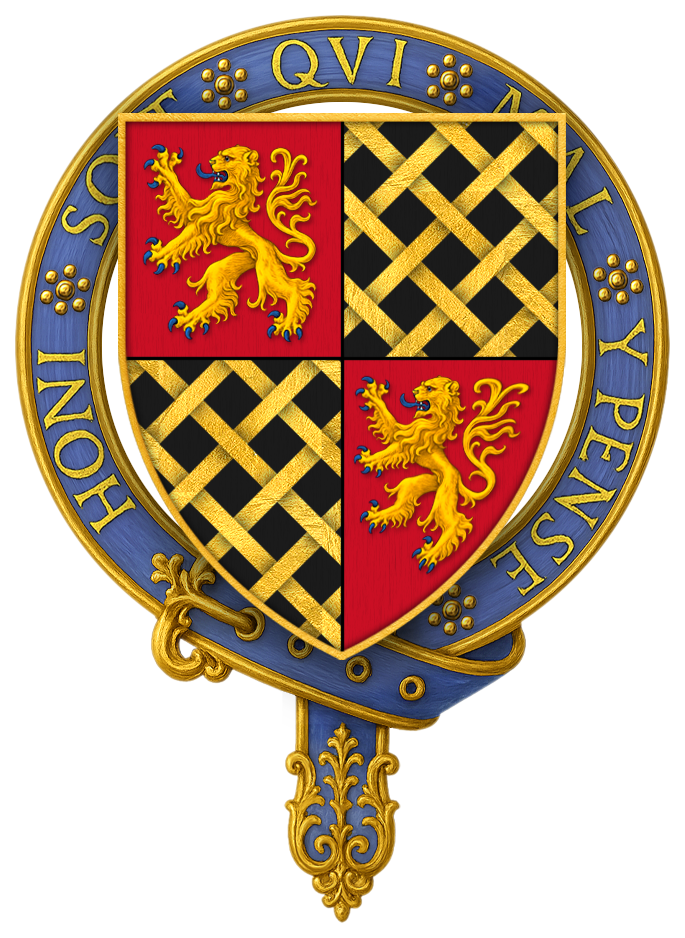 Sir William Arundel, KG BELTZ, George Frederick, Memorials of the Order of the Garter from Its Foundation to the Present Time, London: William Pickering, 1841. “ JSir William Arundel… Arms: Quarterly, 1st and 4th Fitzalan, Gules, a lion rampant Or; 2nd and 3rd Maltravers, Sable, a fret Or.. ” HOPE, W. H. St. John, The Stall Plates of the Knights of the Order of the Garter 1348 – 1485: A Series of Ninety Full-Sized Coloured Facsimiles with Descriptive Notes and Historical Introductions, Westminster: Archibald Constable and Company LTD, 1901. “ Sir William Arundel… arms, quarterly: 1 and 4, gules a lion gold (for Arundel); 2 and 3, purpure fretty gold (for Maltravers). ” Beltz mislabels the 2nd and 3rd quarters as "a fret Or" and Hope, misidentifies the 2nd and 3rd quarters as "purpure". Maltravers arms, as they are depicted on Arundel's stall plate, were sable, fretty or.